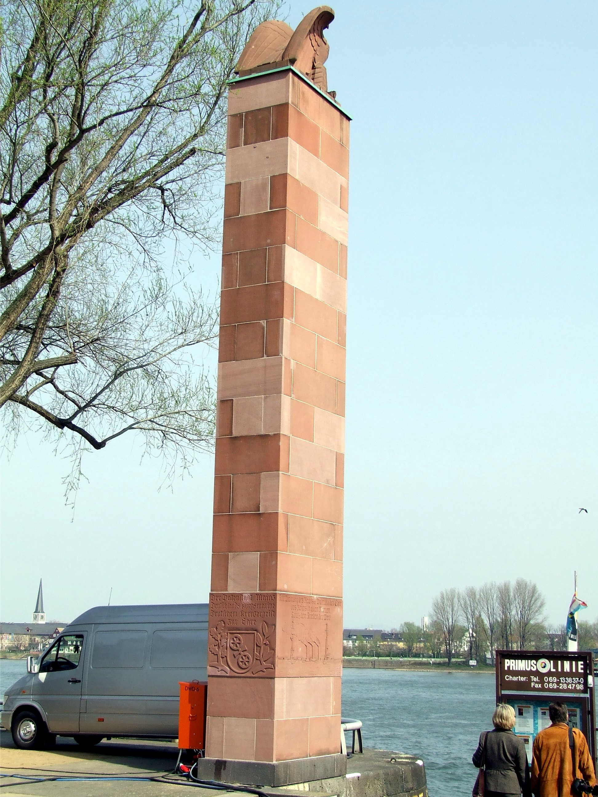 Memorial for the light cruiser SMS Mainz